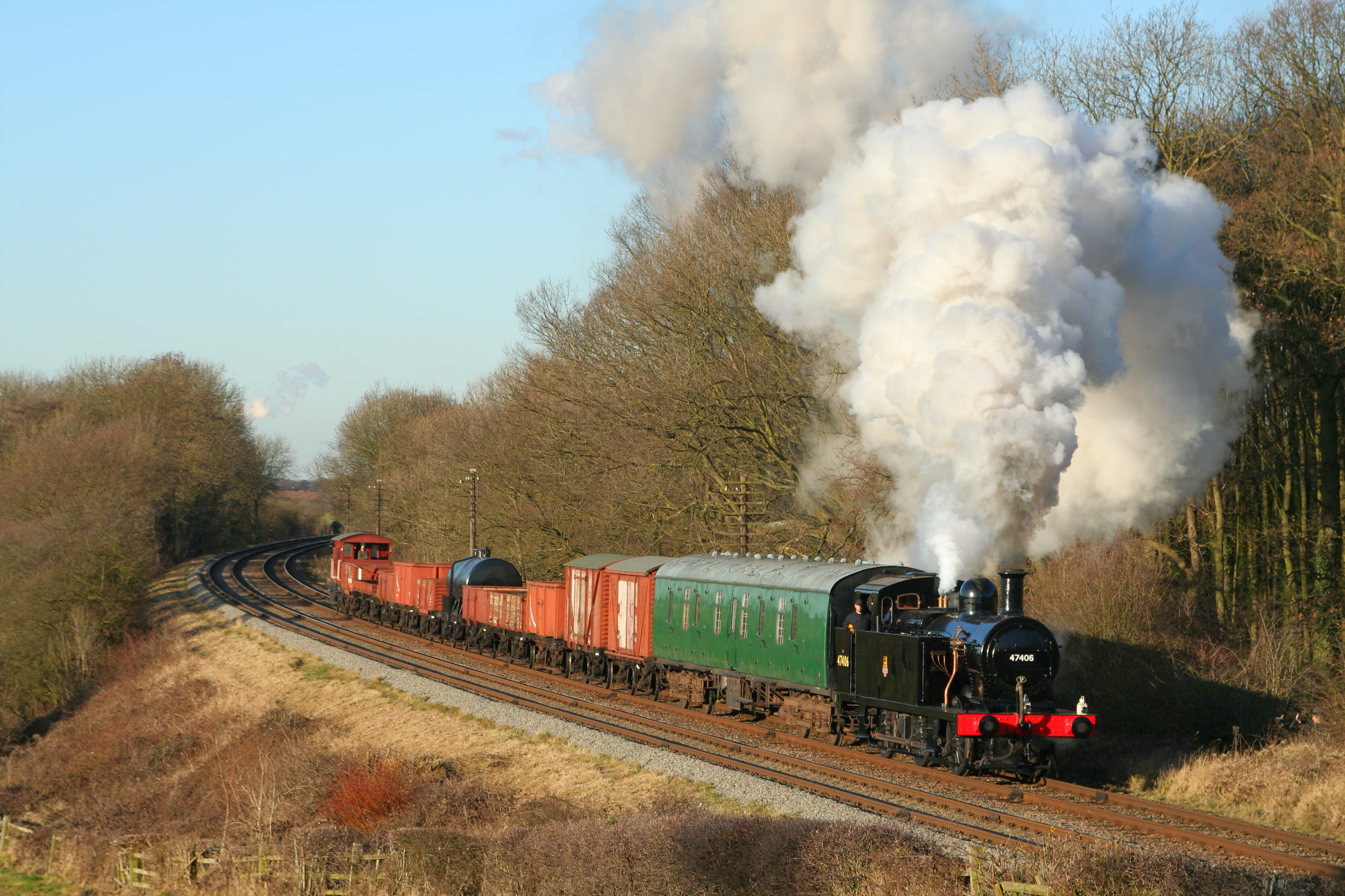 Jinty with the mixed freight